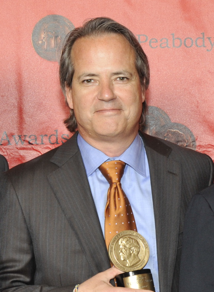 Justified's Timothy Olyphant and xreators with their Peabody Award at the 70th Annual Peabody Awards Luncheon